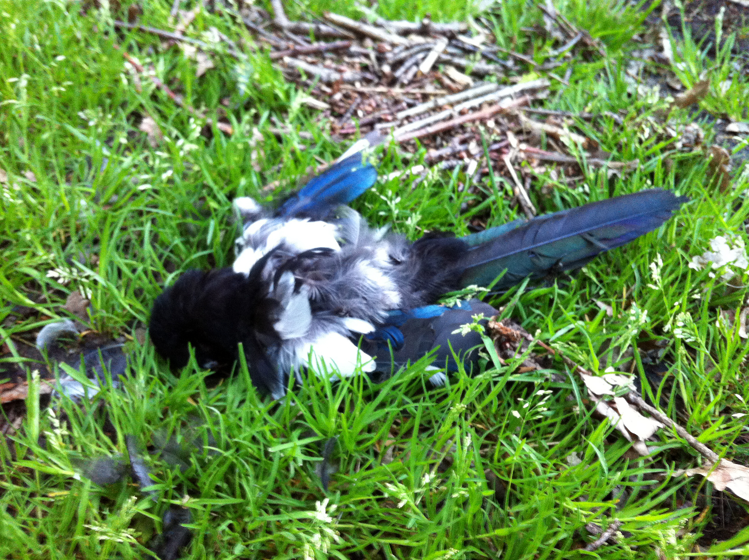 A photo of a dead eurasian magpie lying on grass